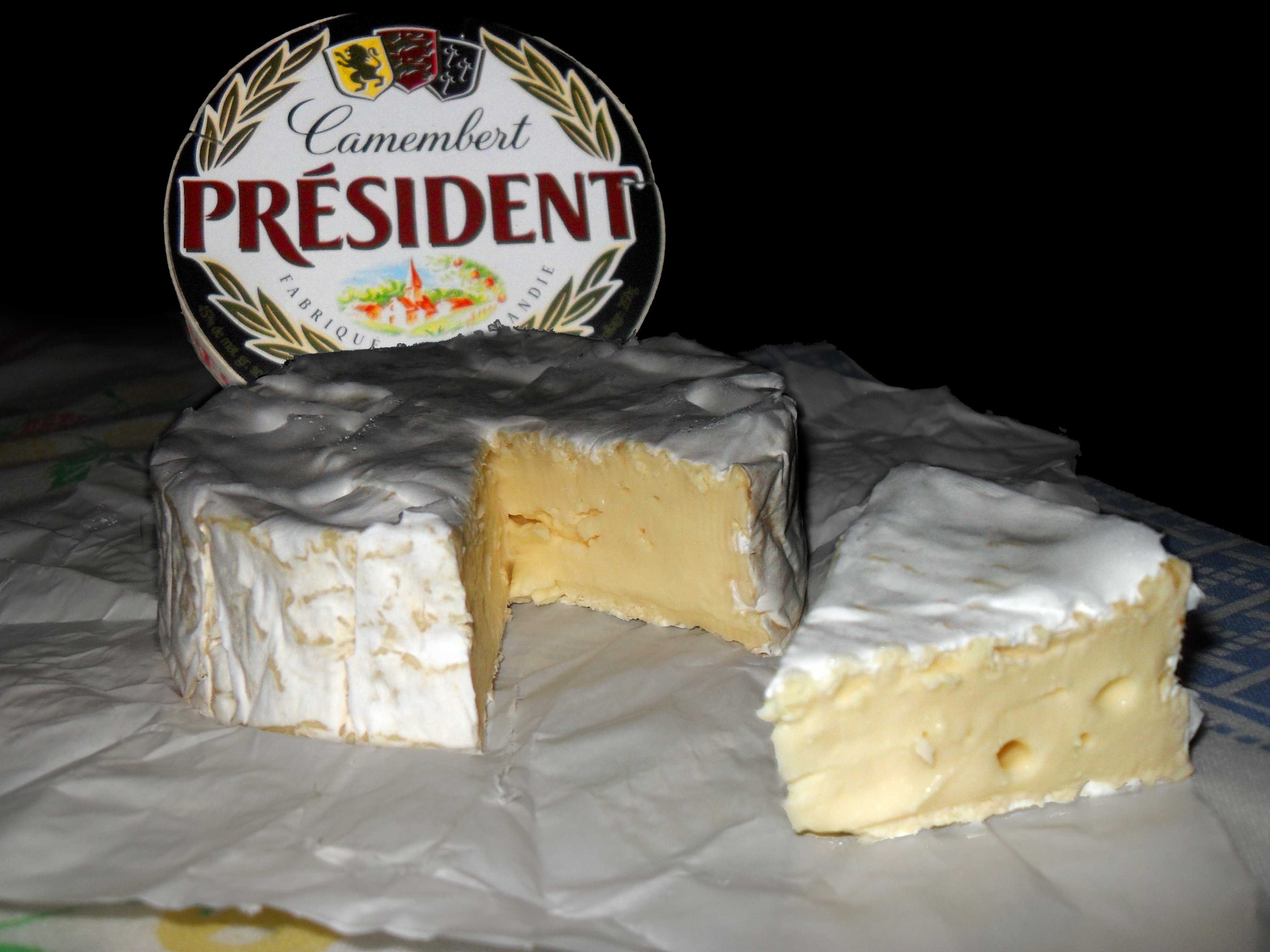 French cheese Camembert fabriqué en Normandie by President